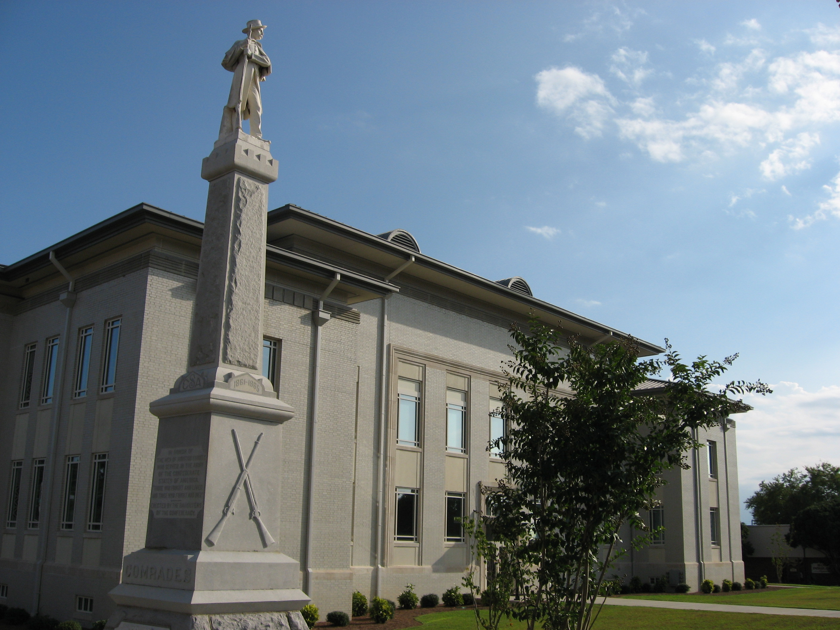 Houston County courthouse in Perry, Georgia